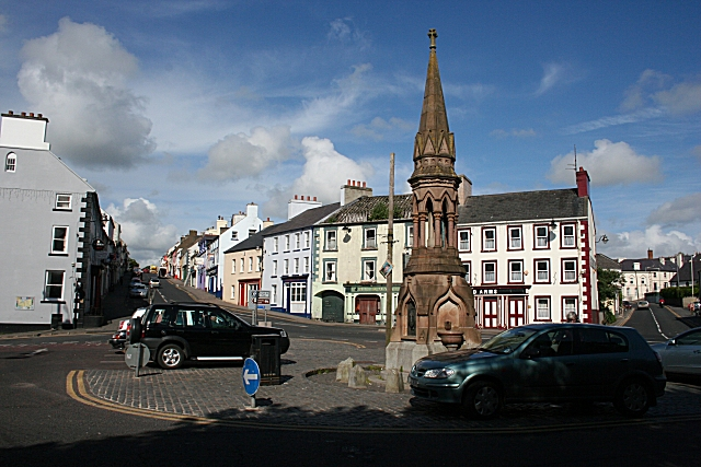 The Diamond This is the centre of Ballycastle, where all the roads into the town come together.